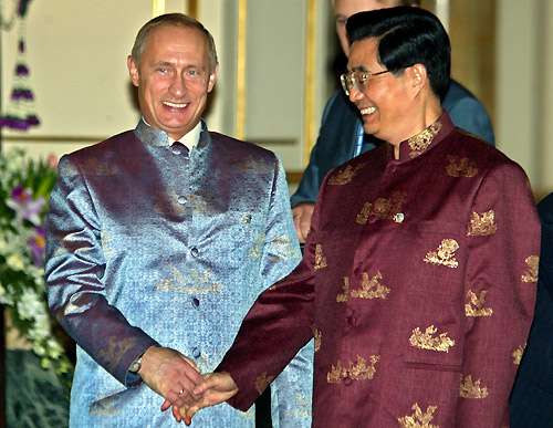 BANGKOK. President Putin with PRC President Hu Jintao.